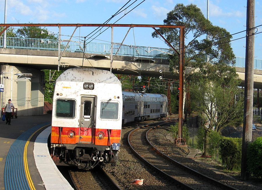 V set train at Katoomba, Blue Mountains, Australia.